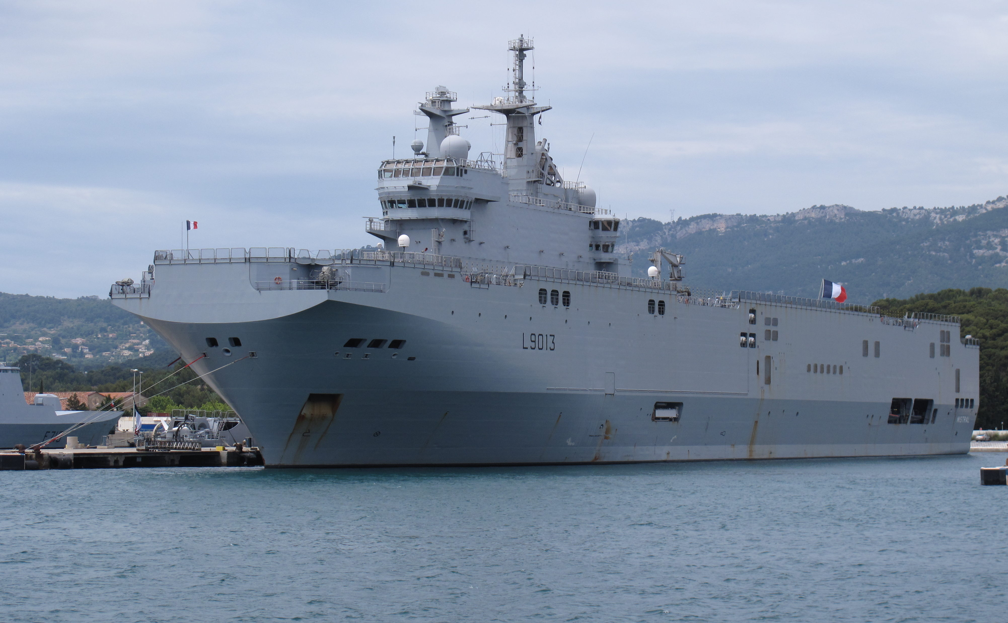 The Mistral (L9013) in Toulon harbour.